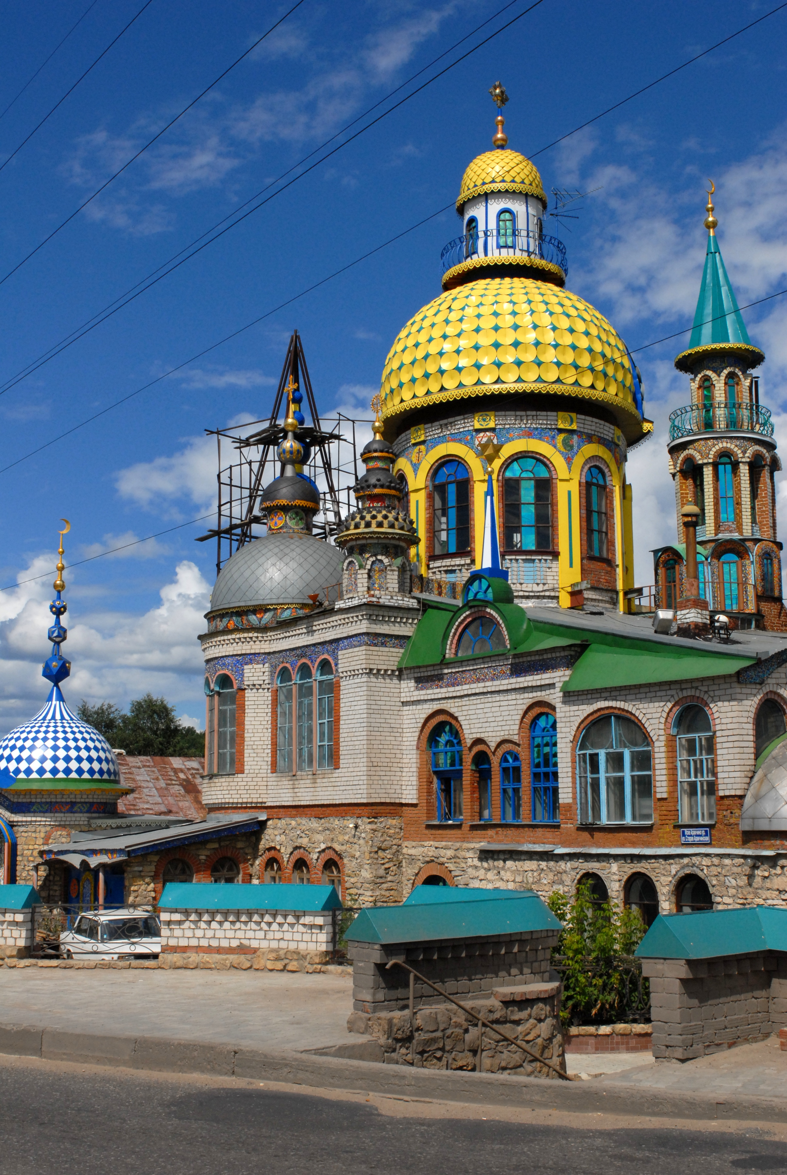 All Religions Temple in Kazan. A building and cultural center build by the local artist Ildar Xanov.